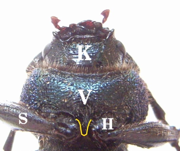 Underside of Callidium violaceum', front K: Caput V: Sternum of Prothorax yellow: Extension of Sternum H: Coxa S: Femur